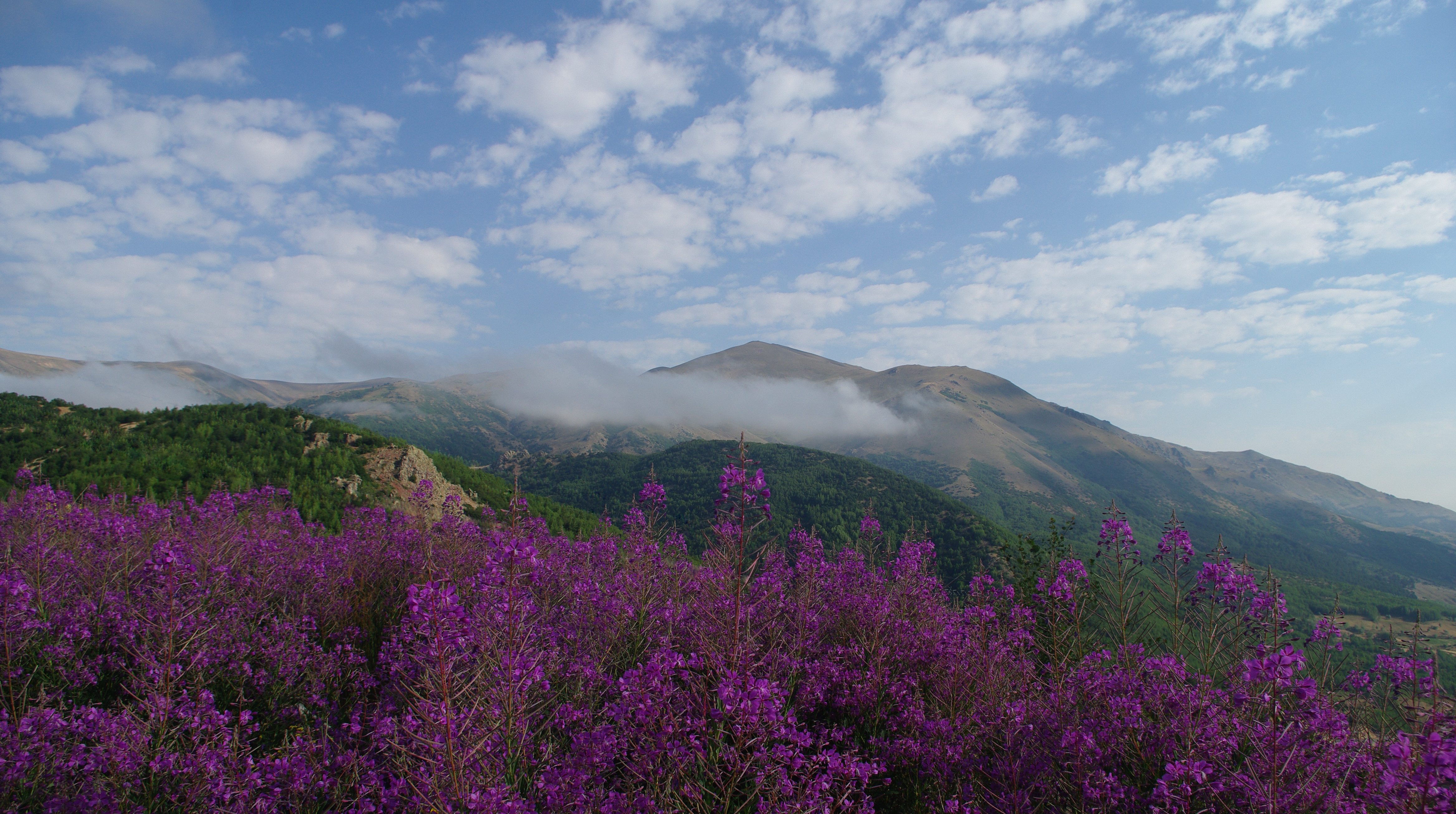 Landscape around Geminbeli Pass. Zara, Sivas - Turkey.